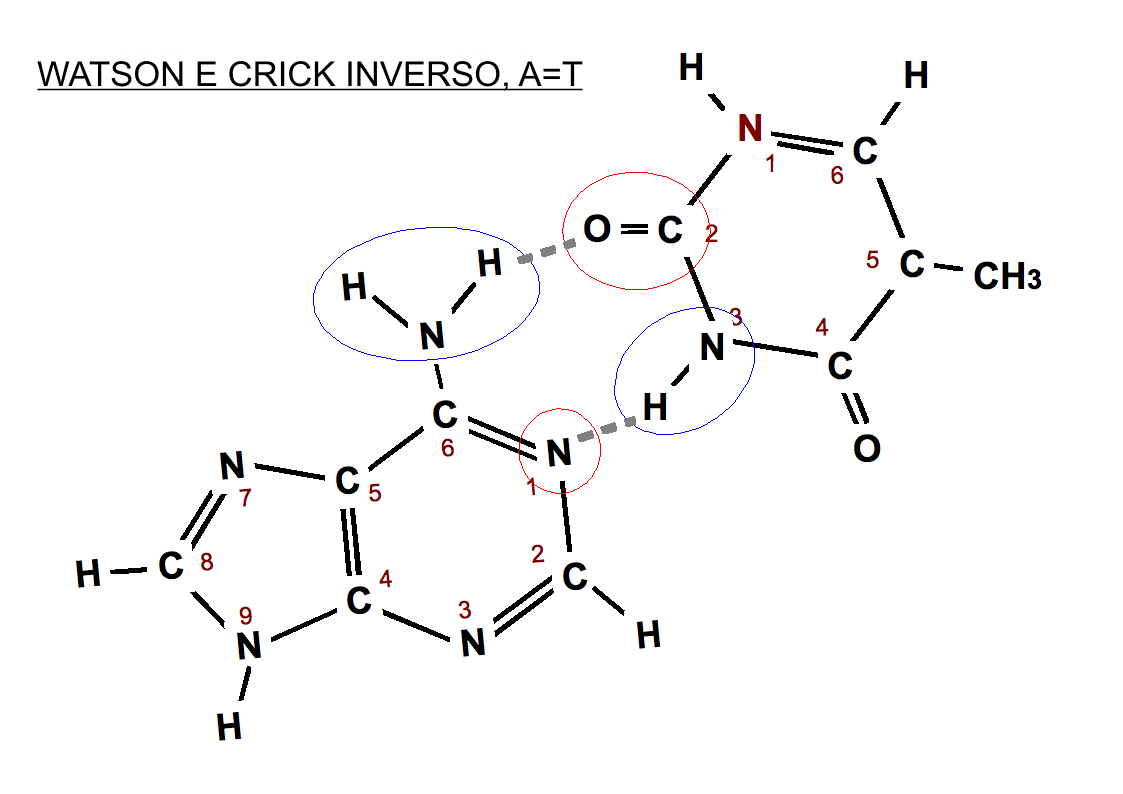 Watson-Crick base pair - reverse